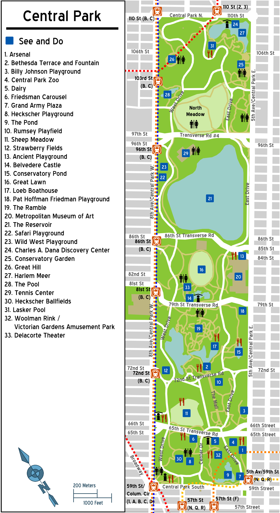 Central Park, Manhattan Map, Manhattan.